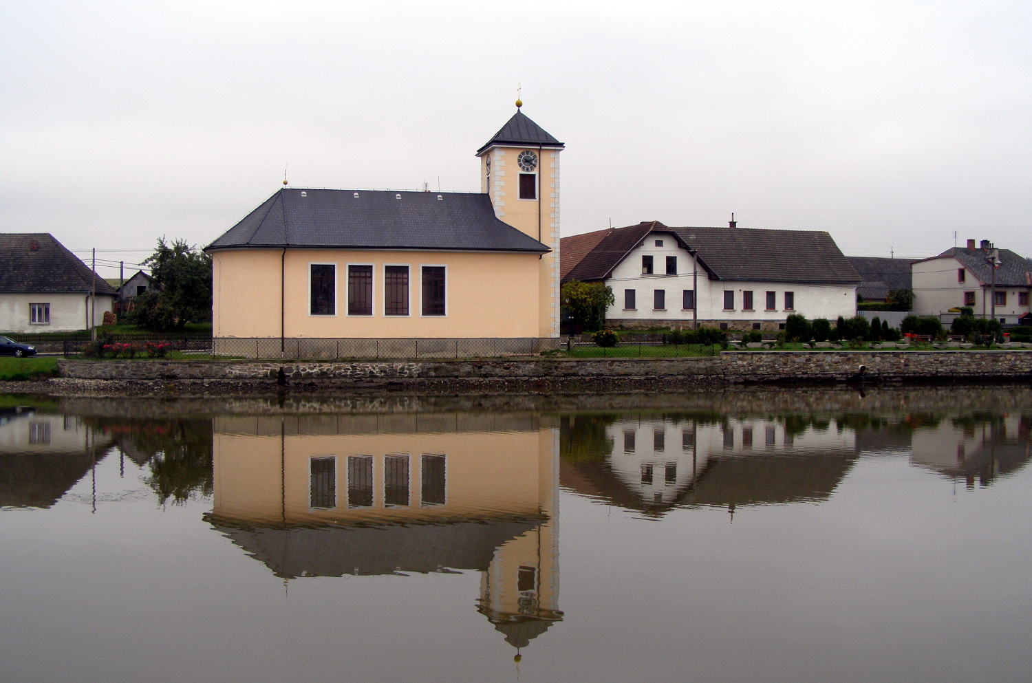 Kozlov village. Saints John and Paul church (built in 1936)